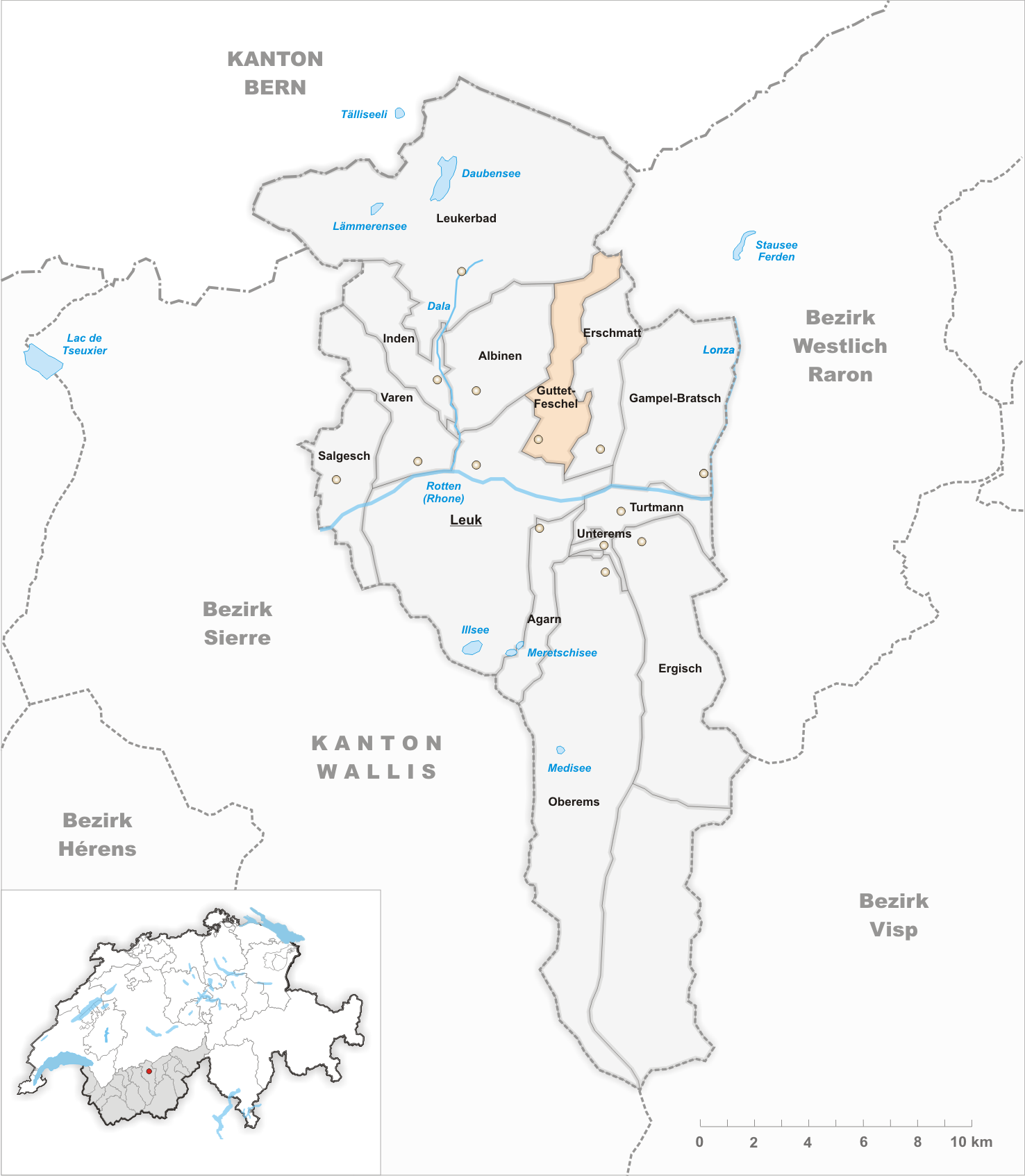 Municipality Guttet-Feschel